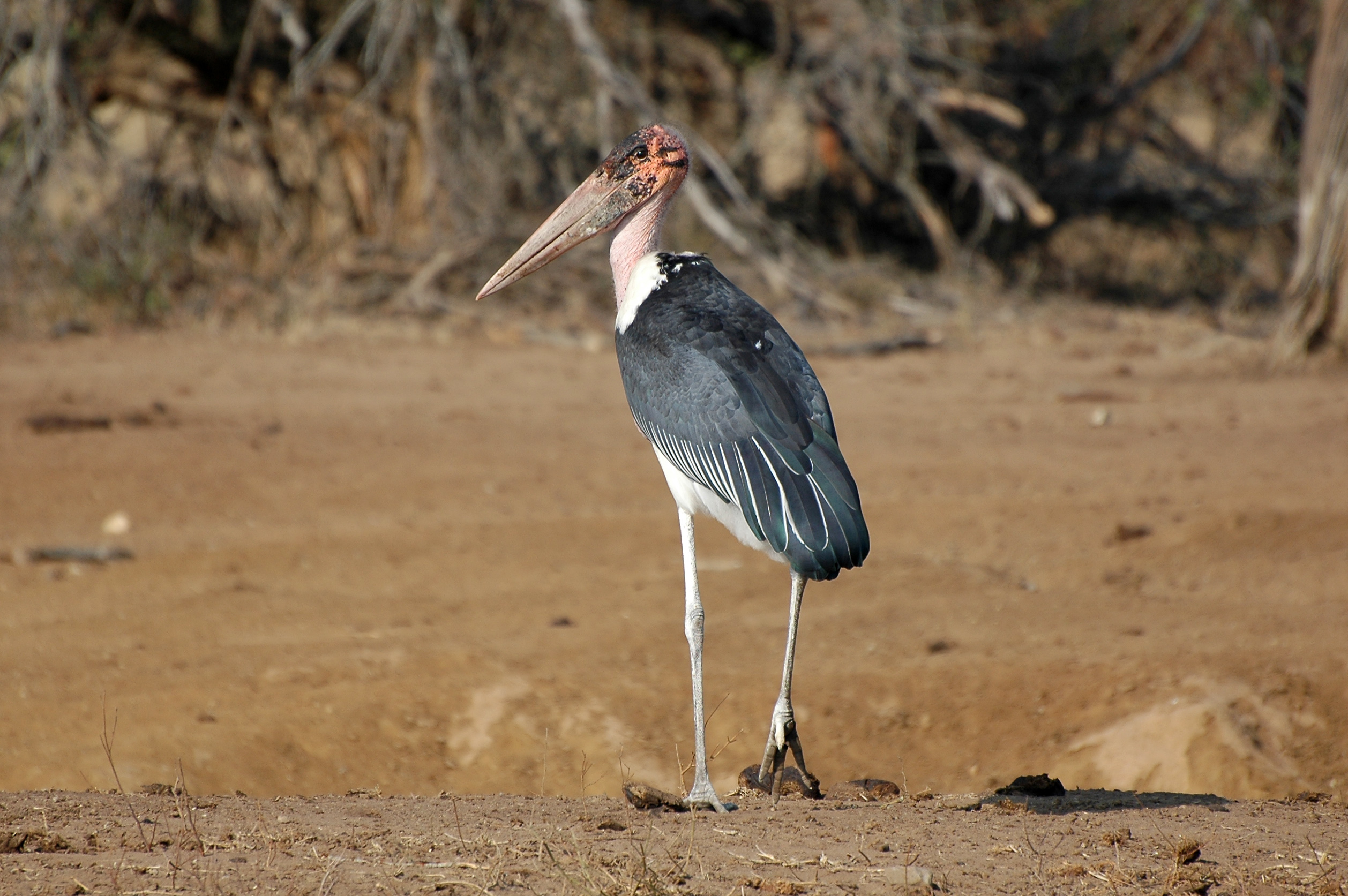 Marabout,Kruger National Park